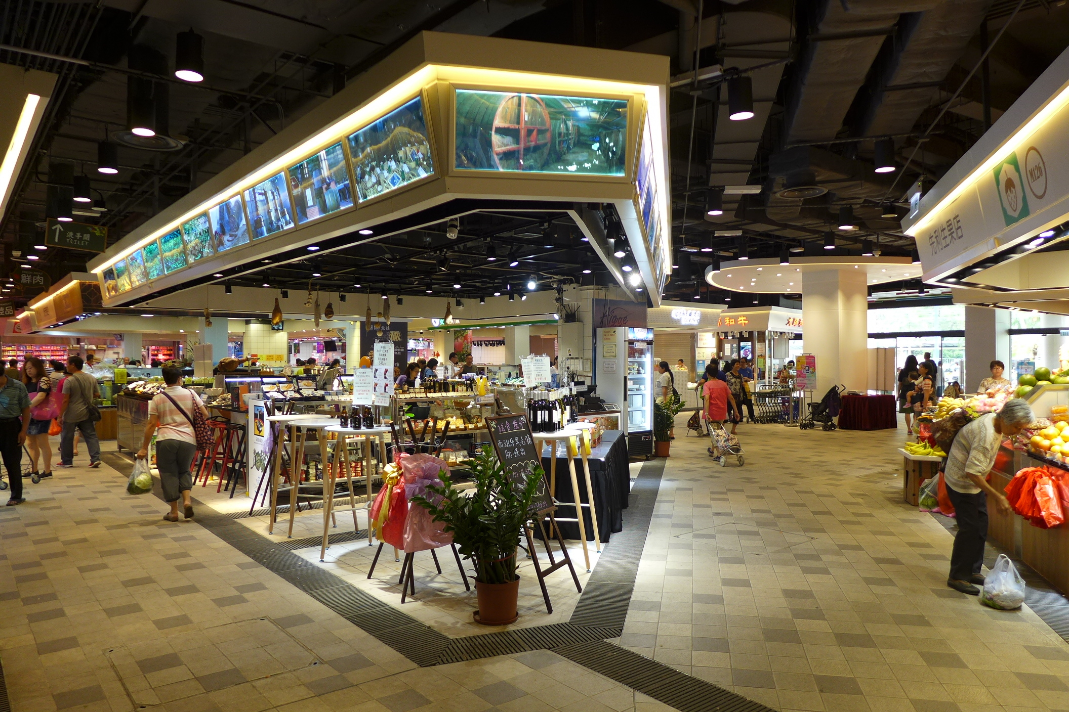 Tin Shing Market Interior